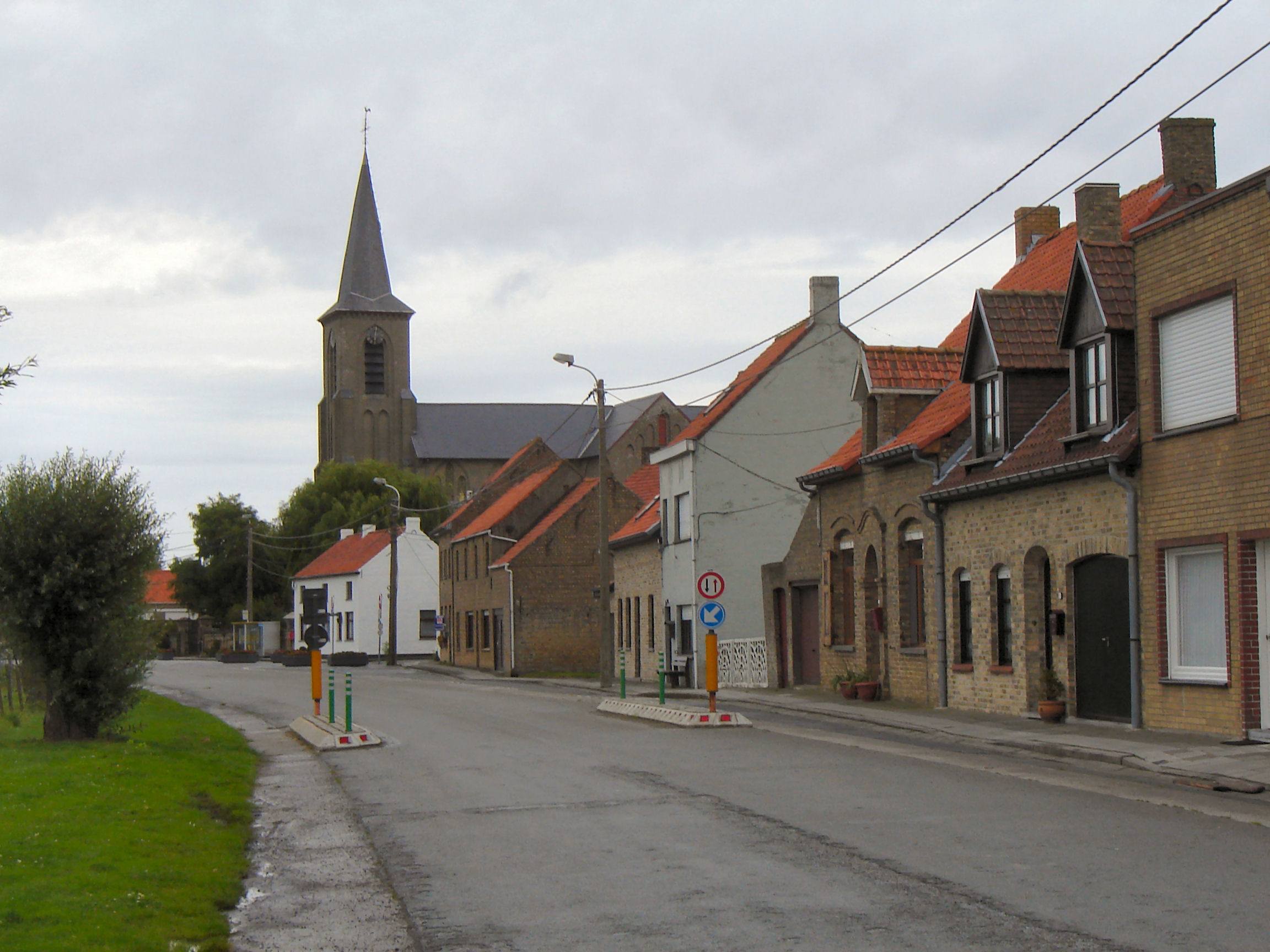 Knollestraat street through the village center of Eggewaartskapelle with the church of the Beheading of Saint John. Eggewaartskapelle, Veurne, West Flanders, Belgium